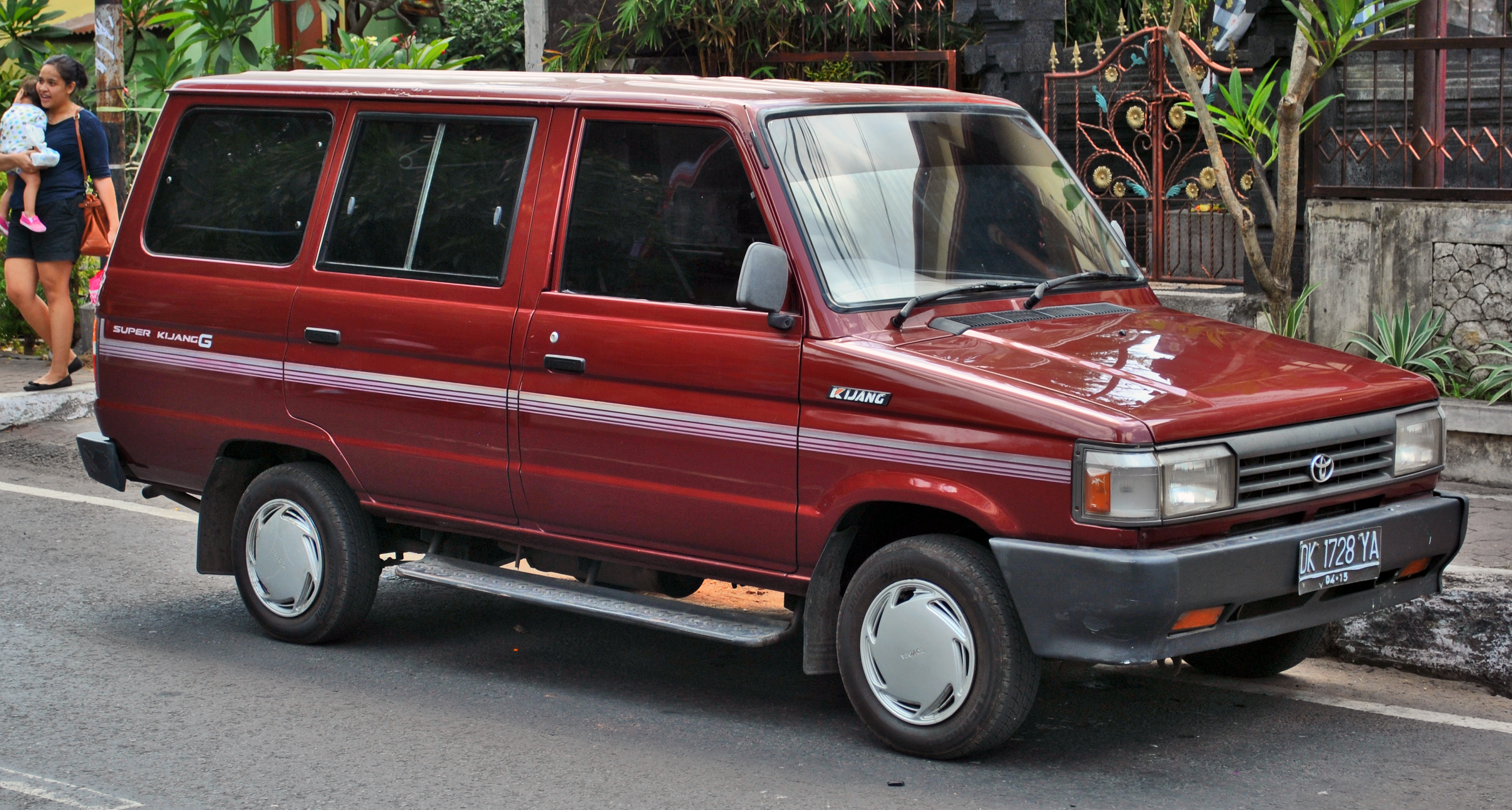 Toyota Super Kijang in Denpasar, Bali, Indonesia.